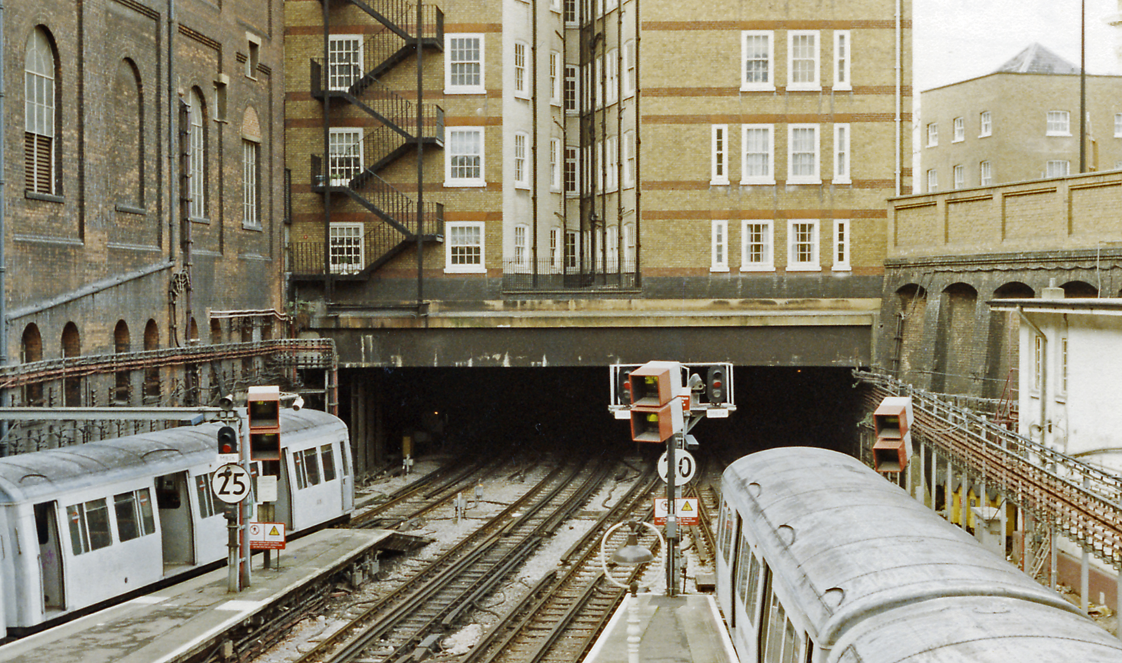 Baker Street station, country end. View NW, above the ends of the ex-Metropolitan main line platforms (Nos. 1-4) to the mouth of the tunnels which run almost uninterrupted out to Finchley Road station.